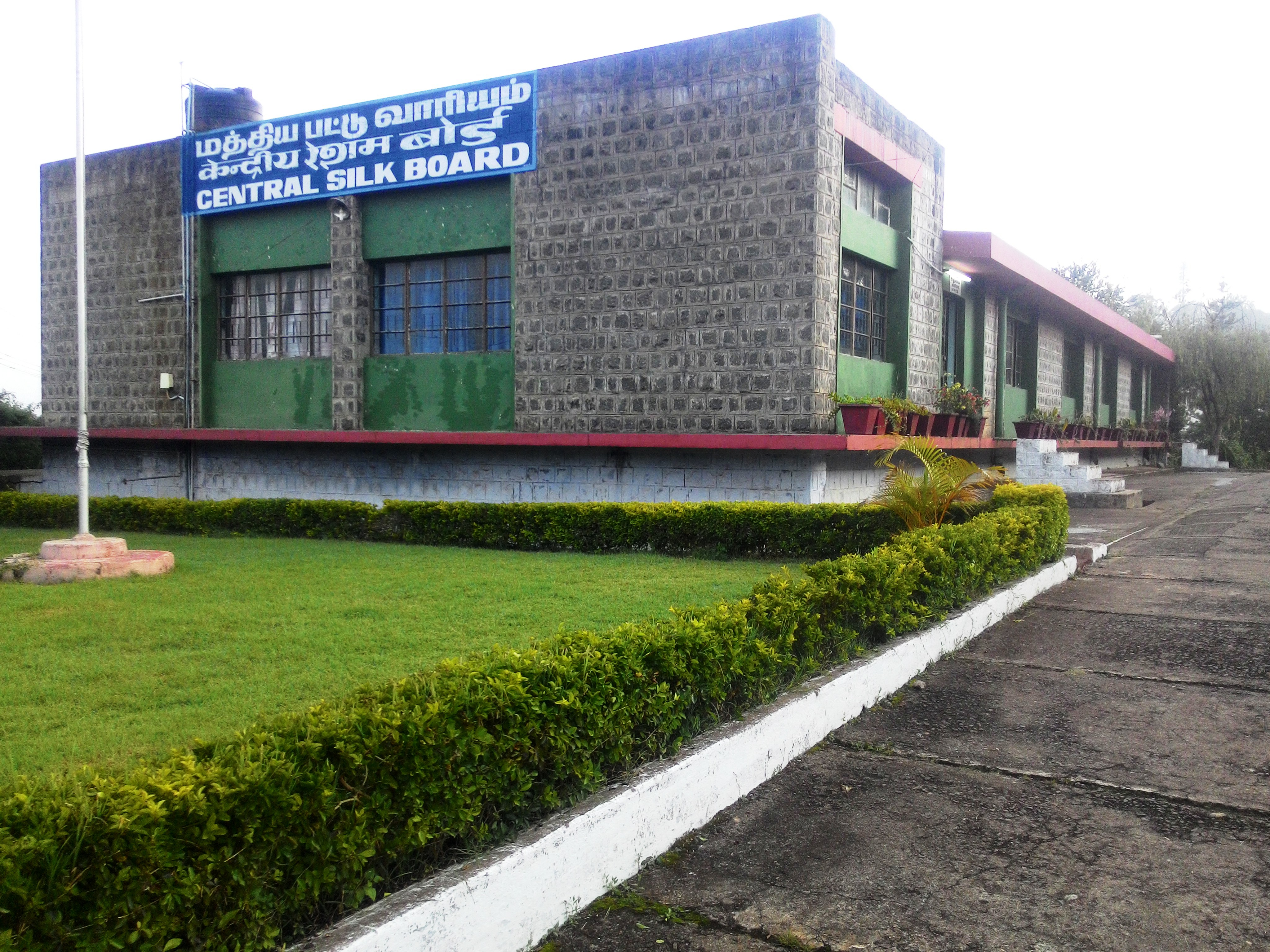 Office Building